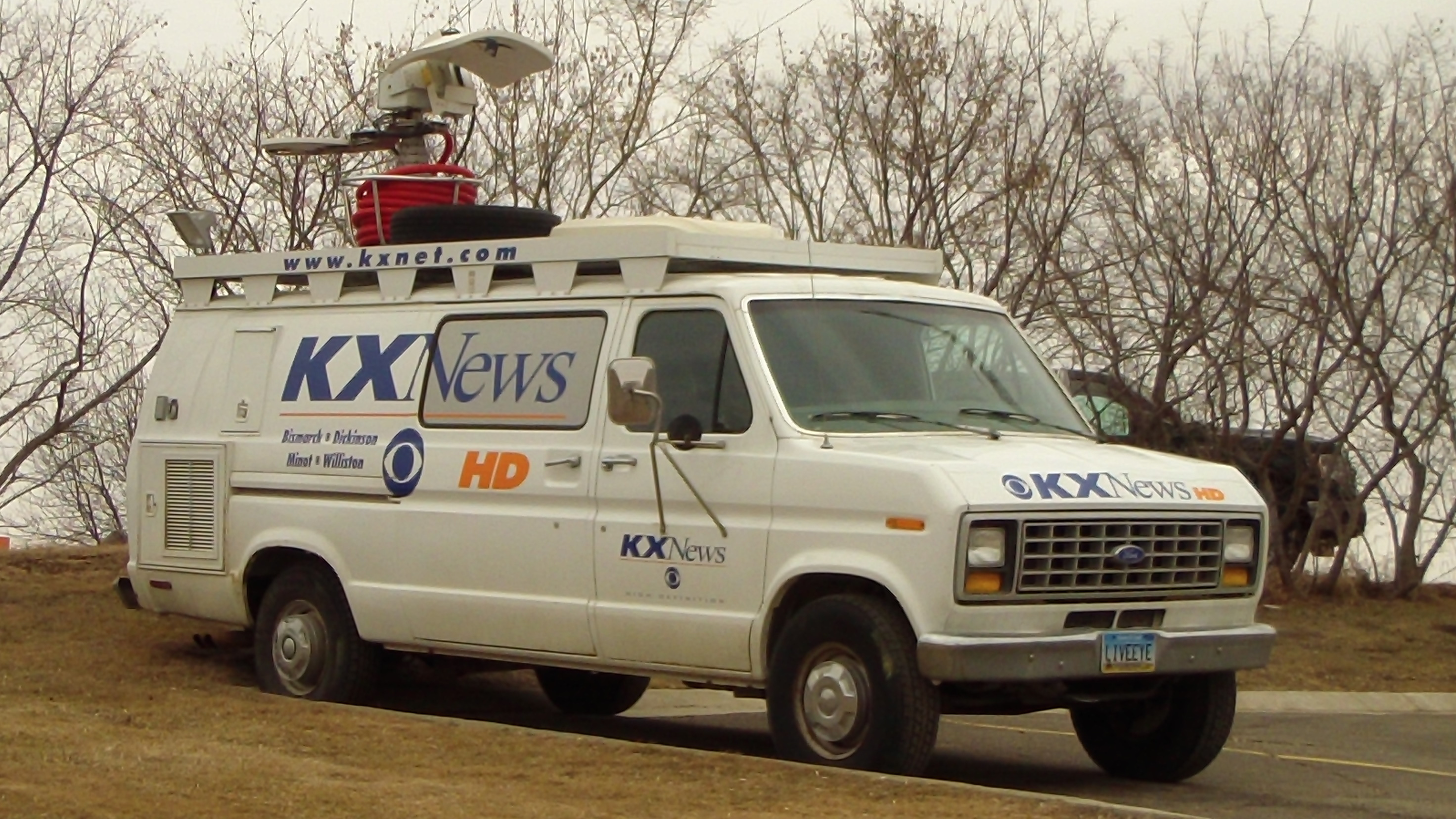 Mobile Broadcasting Unit supporting KXMB-TV and sister stations